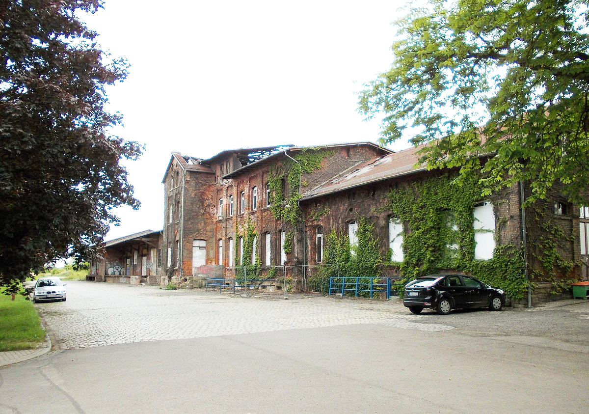 Pegau train station (Leipzig district, Saxony) before the demolition of the station building